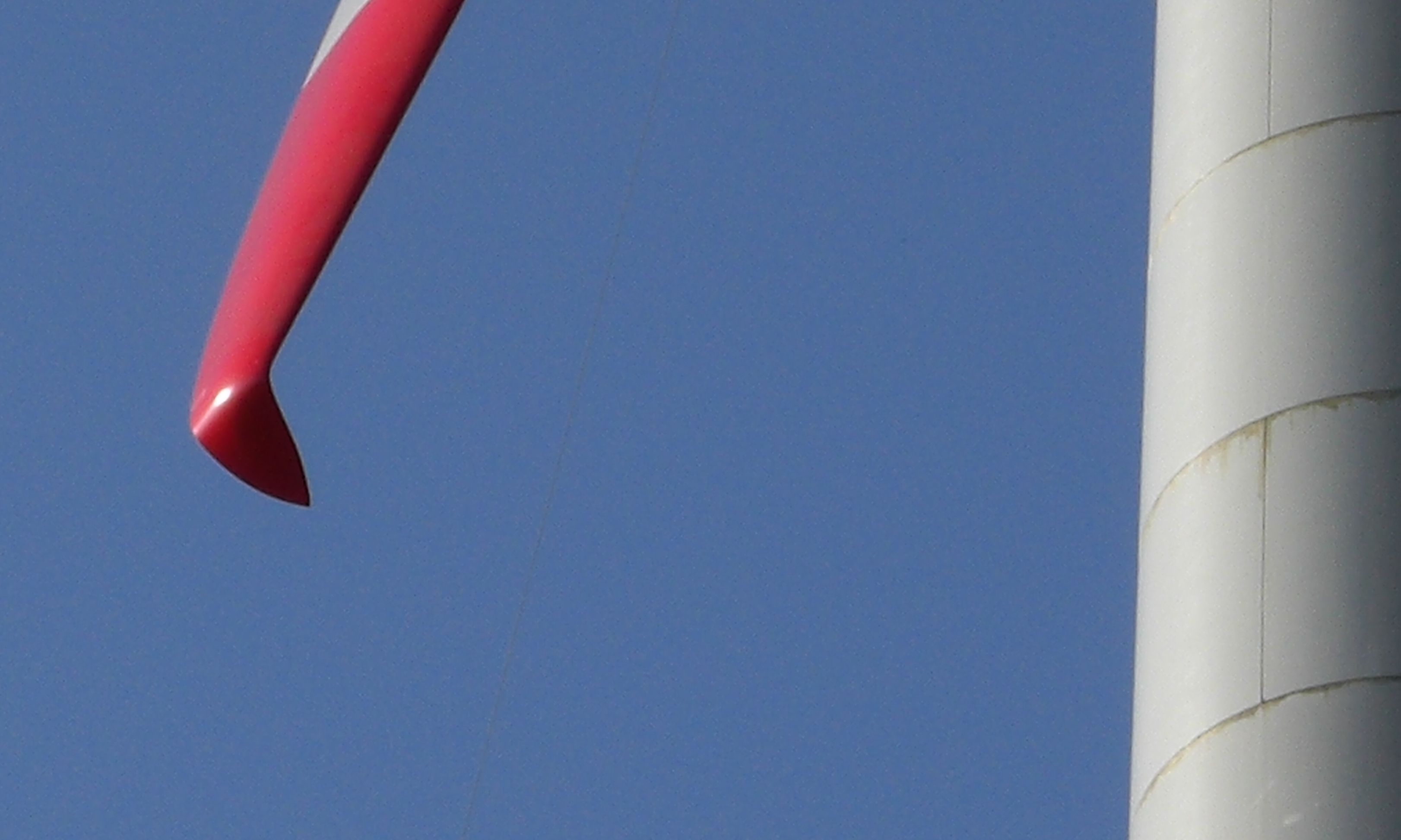 Wind turbine rotor-blade winglet